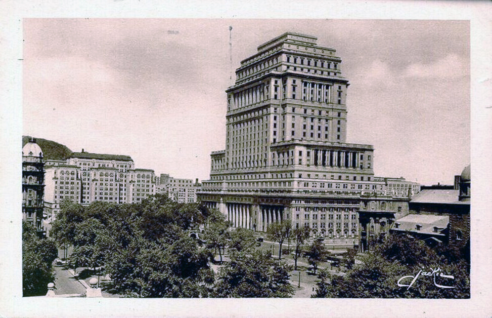 Postcard of the Sun Life Building in Montreal, Quebec, Canada. Postcard is postmarked October 20, 1942.